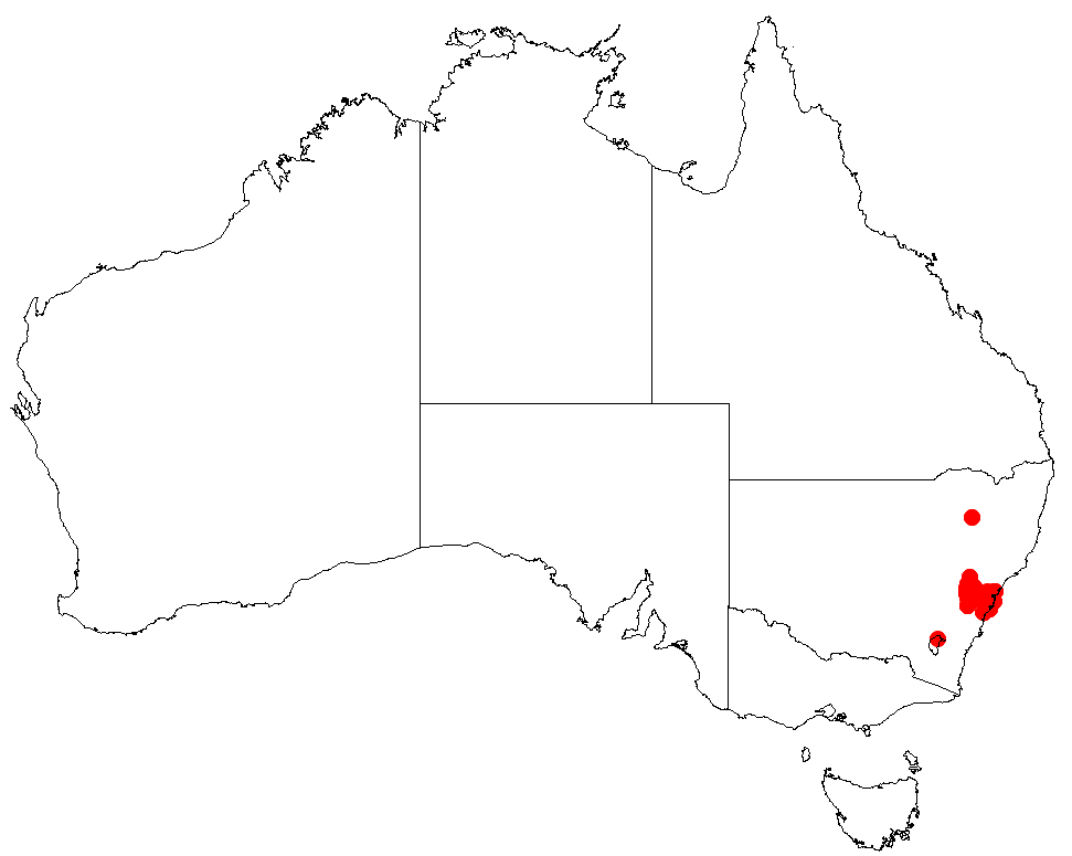 Hakea propinqua Occurrence data downloaded from Australasian Virtual Herbarium on 22 November 2018 using